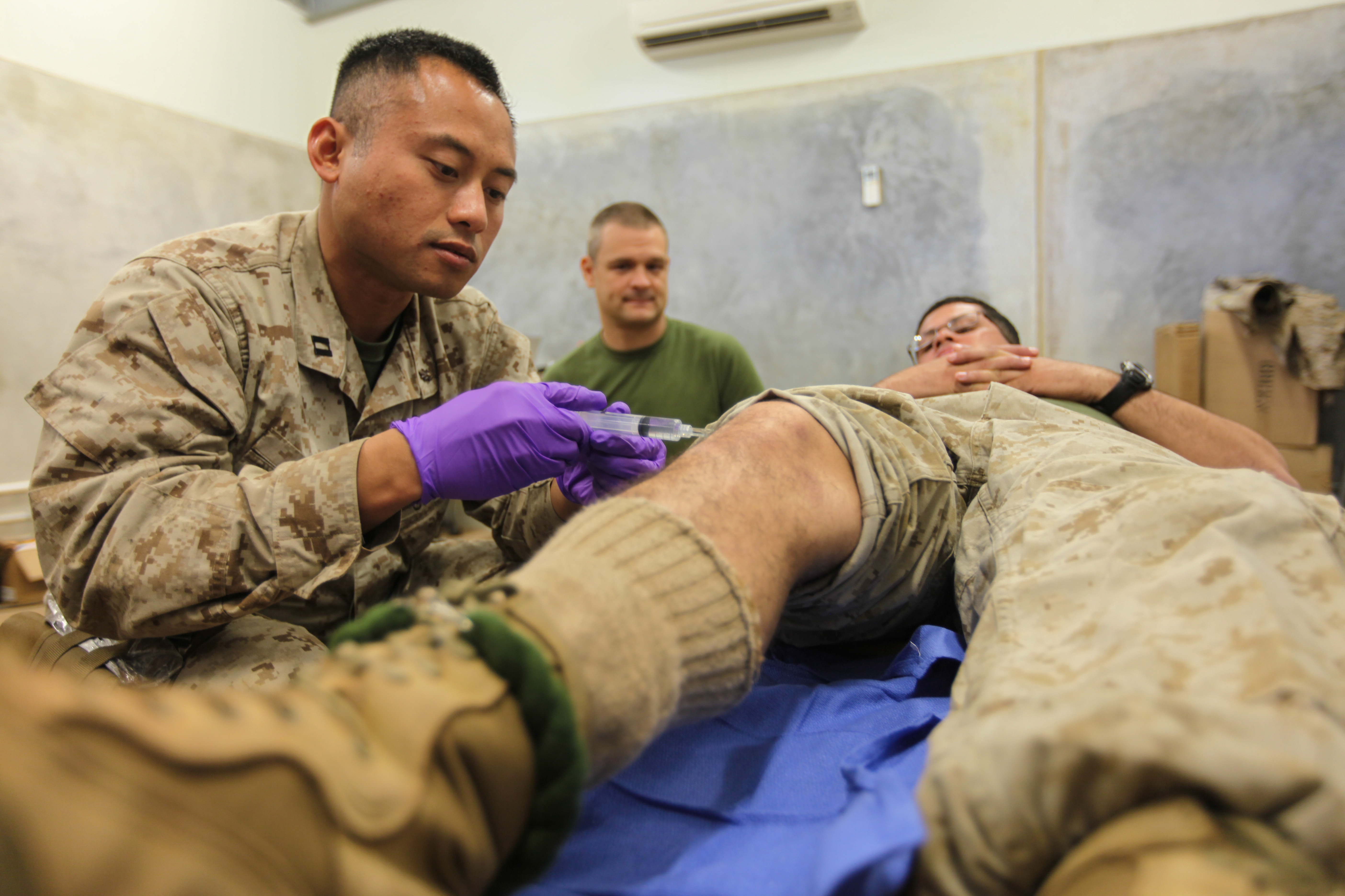 Navy Lt. Chris A. Cruz, a 29-year-old medical doctor for Combat Logistics Battalion 31, 31st Marine Expeditionary Unit, and a native of Arlington, Texas, provides an intra-articular, sub-patella injection for pain relief during Exercise Koolendong 13 here, Sept. 4. The doctors and corpsmen of the 31st MEU’s logistics combat element and command element operate multiple aid stations to maintain the health of more than 250 Marines and Sailors training in the area. Koolendong demonstrates the operational reach of the 31st MEU and reinforces why it is the force of choice for the Asia-Pacific region. Also participating in the exercise is the Marine Rotational Force – Darwin and soldiers of the 5th Royal Australian Army. The 31st MEU brings what it needs to sustain itself to accomplish the mission or to pave the way for follow-on forces.